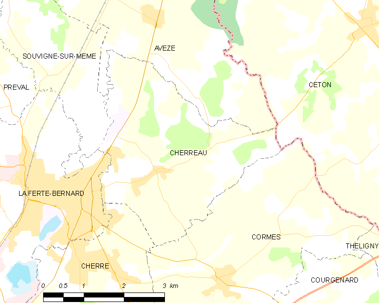 Map of French municipality